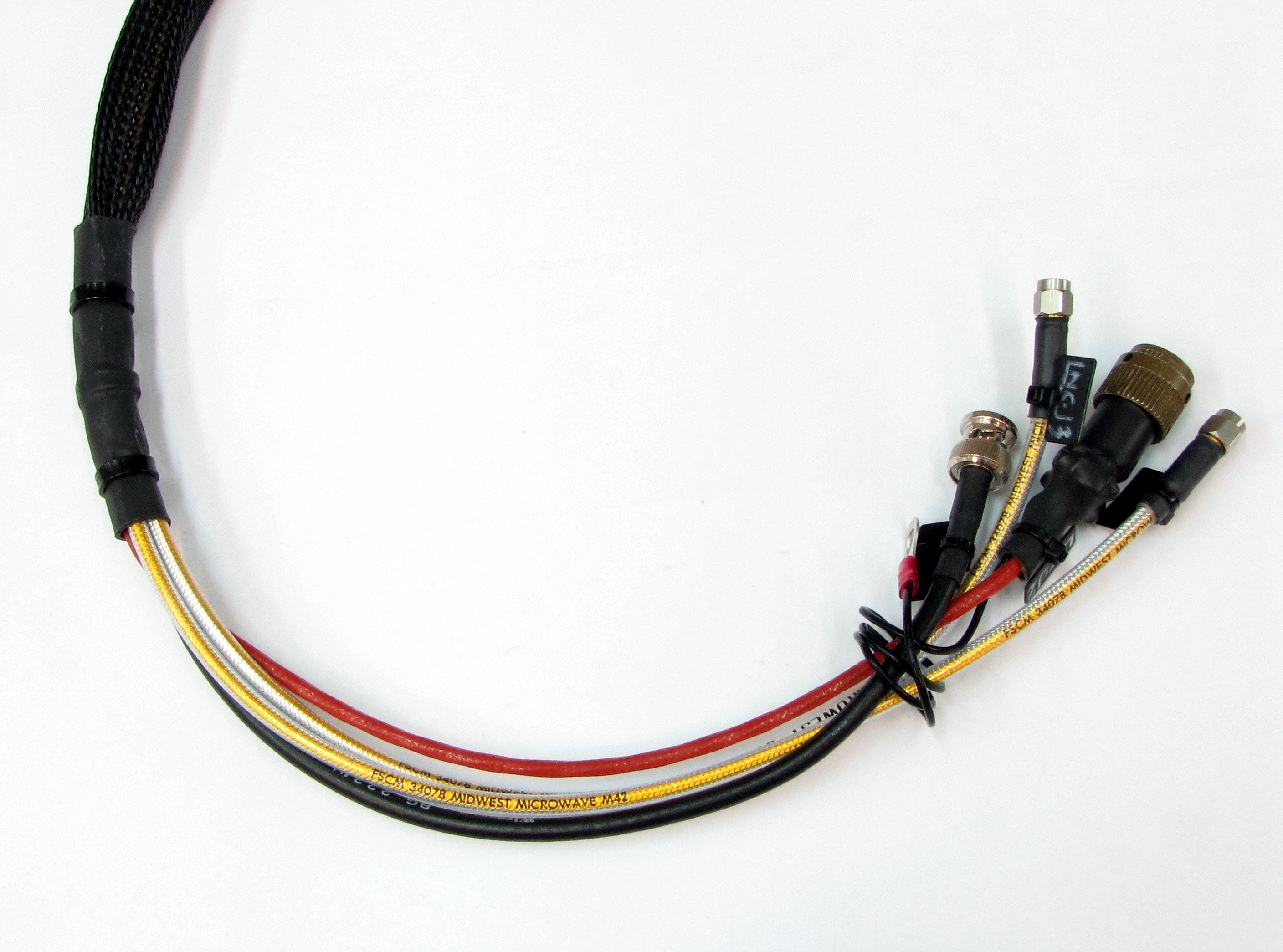 Harness of coaxial cables.